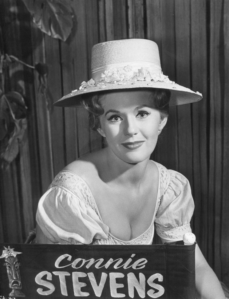 Publicity photo of Connie Stevens from the television program Hawaiian Eye.